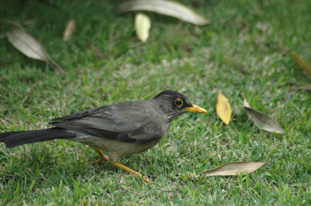 Picture taken at Santiago, Chile